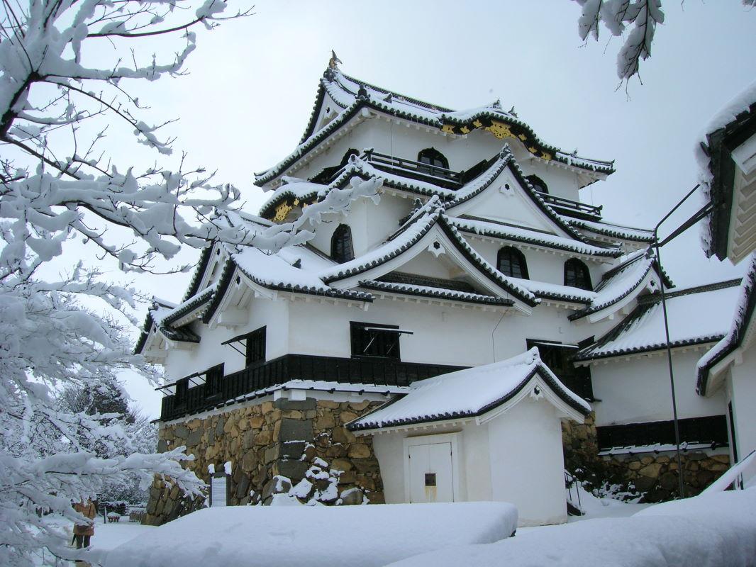 Hikone Castle in winter. Hikone Castle tenshu (main building) in snow, Hikone.